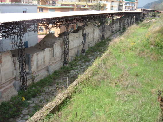 Excavations (Scavi) of a roman street in Pozzuoli (municipality near Naples), April 2005. The roman street (via Puteolis-Neapolim) which is near the volcano Solfatara, bypassed the center of the old Pozzuoli (Puteoli), and is flanked by monumental funeray mausolea of the roman VIP of Puteoli.